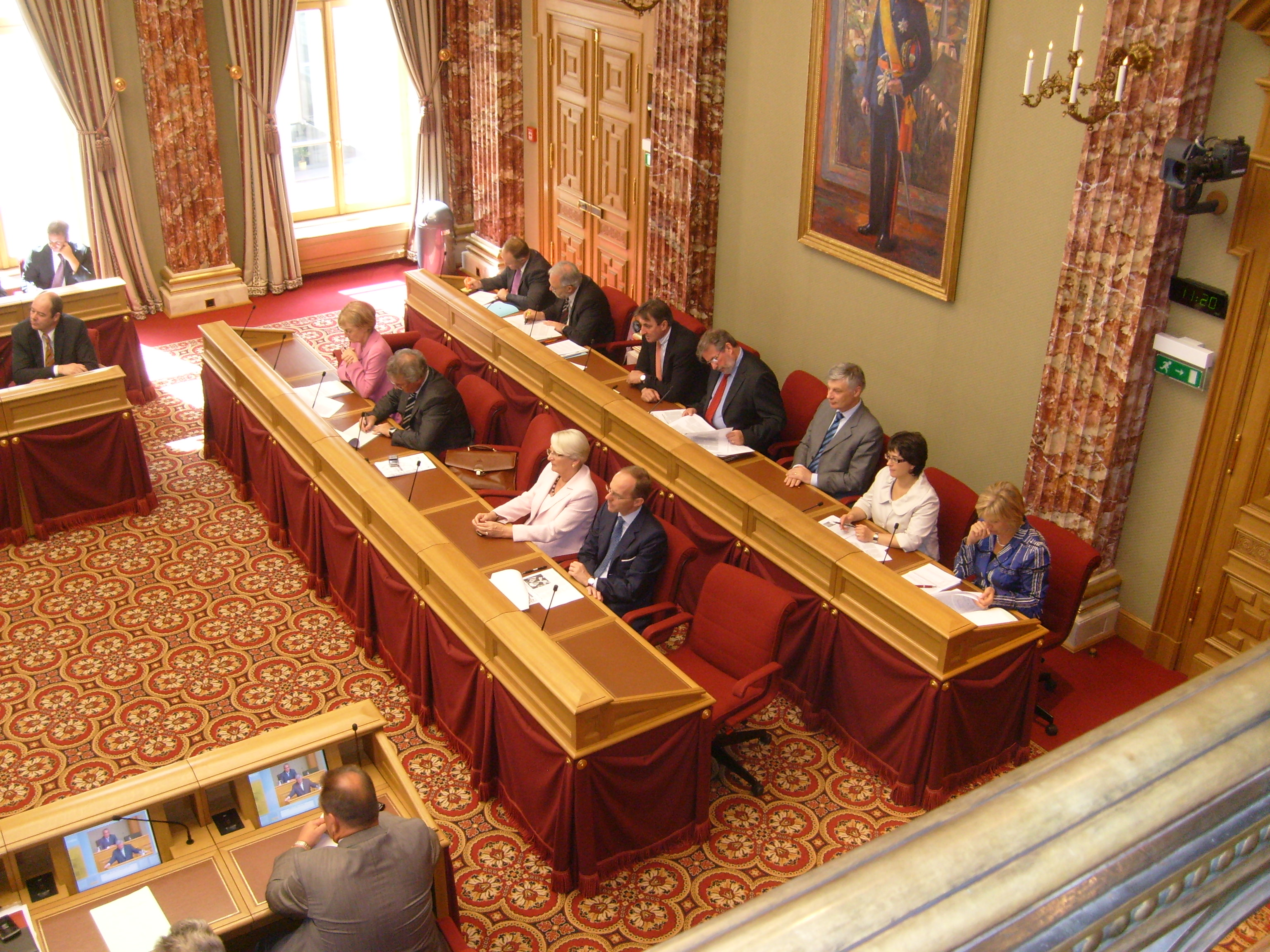 The Luxembourg government Juncker-Asselborn II in the Luxembourg parliament while Prime Minister Jean-Claude Juncker presents the governmental programme.